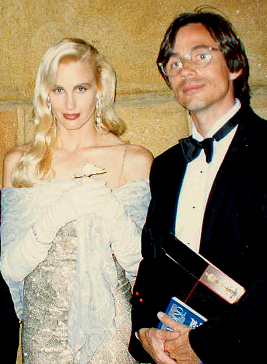 Daryl Hannah and Jackson Browne taken at 60th Academy Awards 4/11/88 (revised)